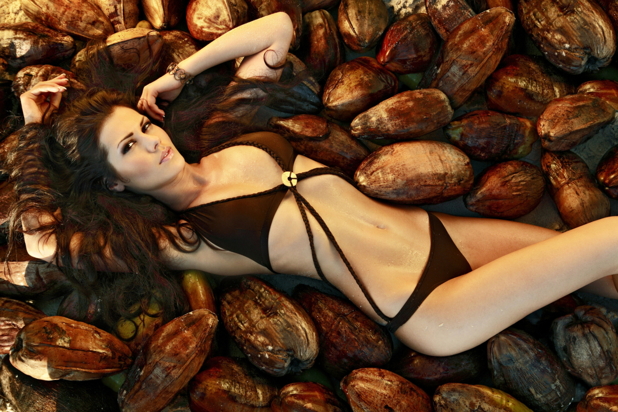 Jana Doležalová Miss Czech Republic 2004